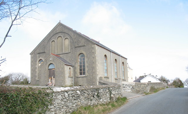 Capel Penucheldref This Calvinistic Methodist chapel is about a quarter of a mile from the village of Llansadwrn. The present building dates from the 1870s, but was enlarged following the Revival of 1904-05. The chapel also had a library. It closed in 1997 and put on the market.